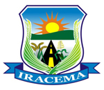 Coat of arms of the city of Iracema, Roraima, Brazil.